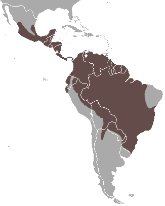 Tayra (Eira barbara) range